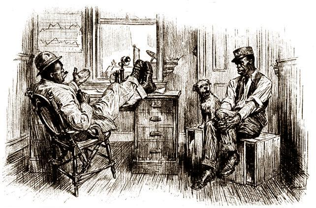 Illustrator J. J. Gould's 1930 drawing of Amos 'n' Andy for New Movie Magazine A copyright search was done for periodicals and artwork for the years 1967 and 1968 for New Movie Magazine, Tower Publications, and J.J. Gould. There were no results. Based on these findings, there is no claim to the illustration.